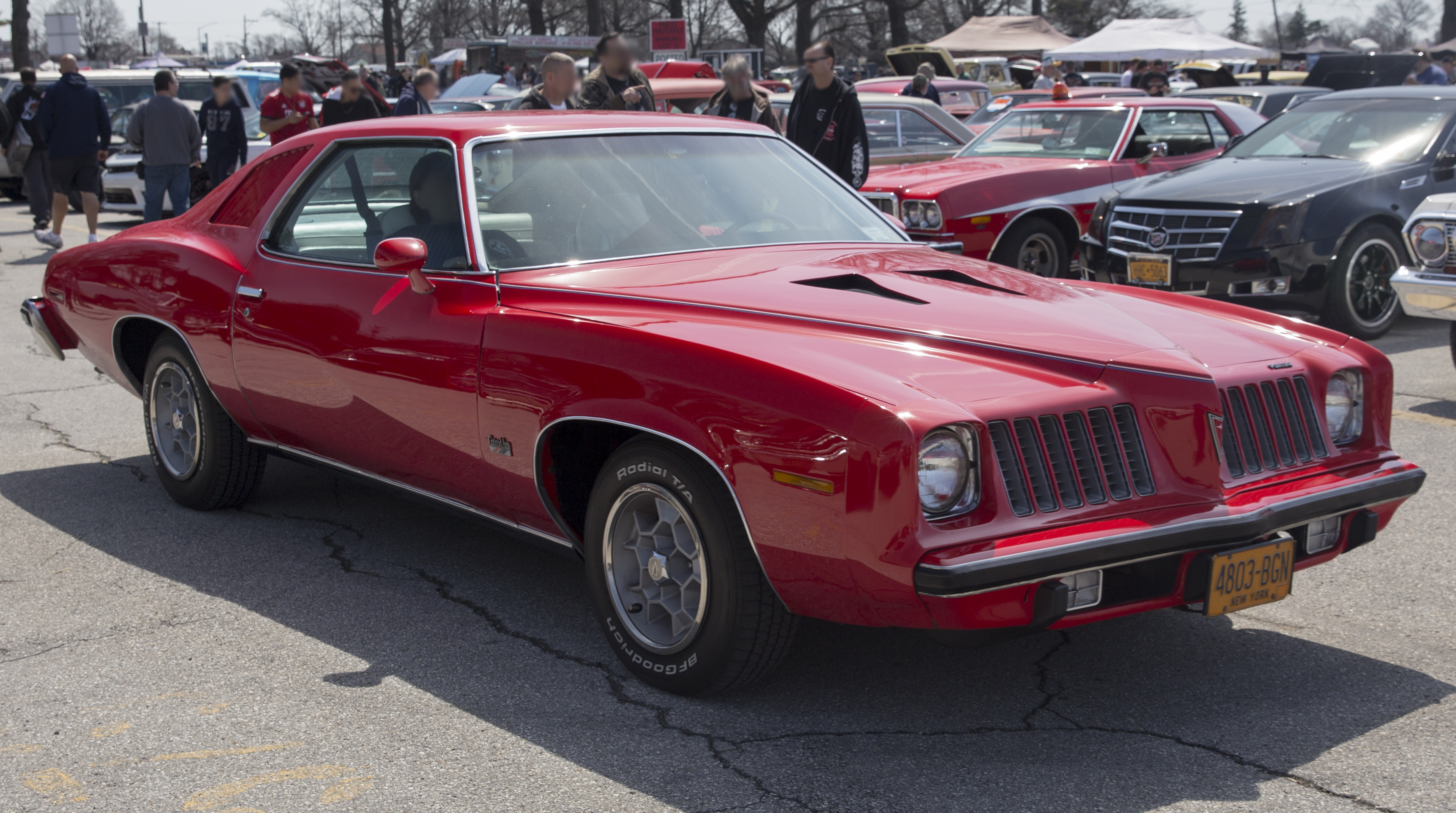 A 1974 Pontiac Grand Am two-door Hardtop 6.5-liter (400ci) at the Belmont Race Track.